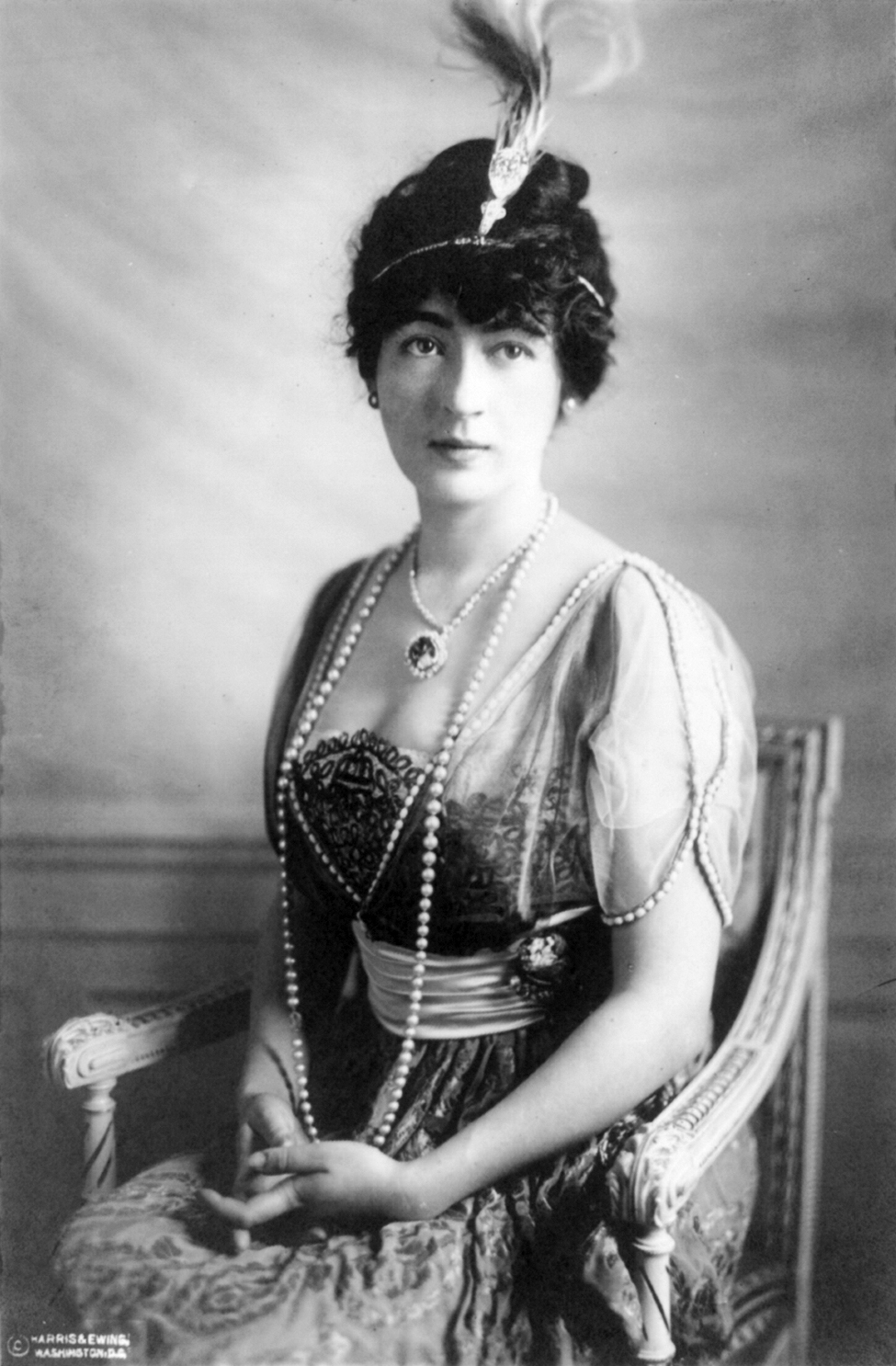 Evalyn Walsh McLean, American socialite and last owner of the Hope Diamond